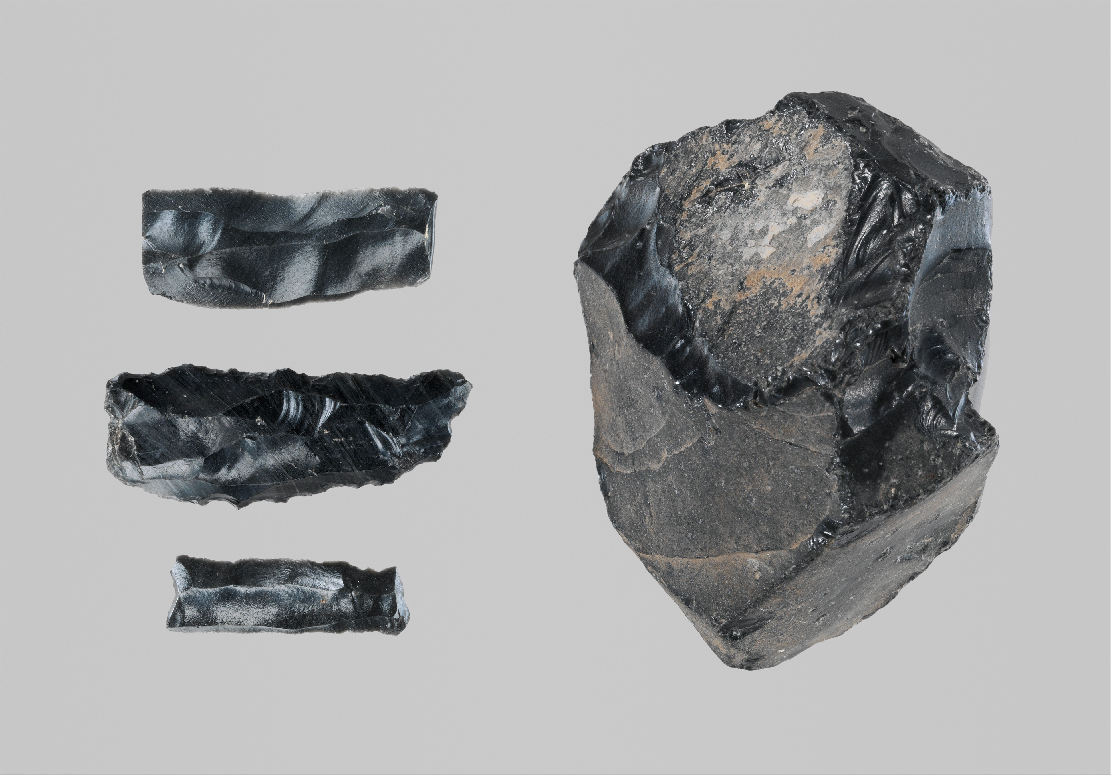 Cycladic; 3 fragments of worked obsidian and a lump of obsidian; Miscellaneous-Stone